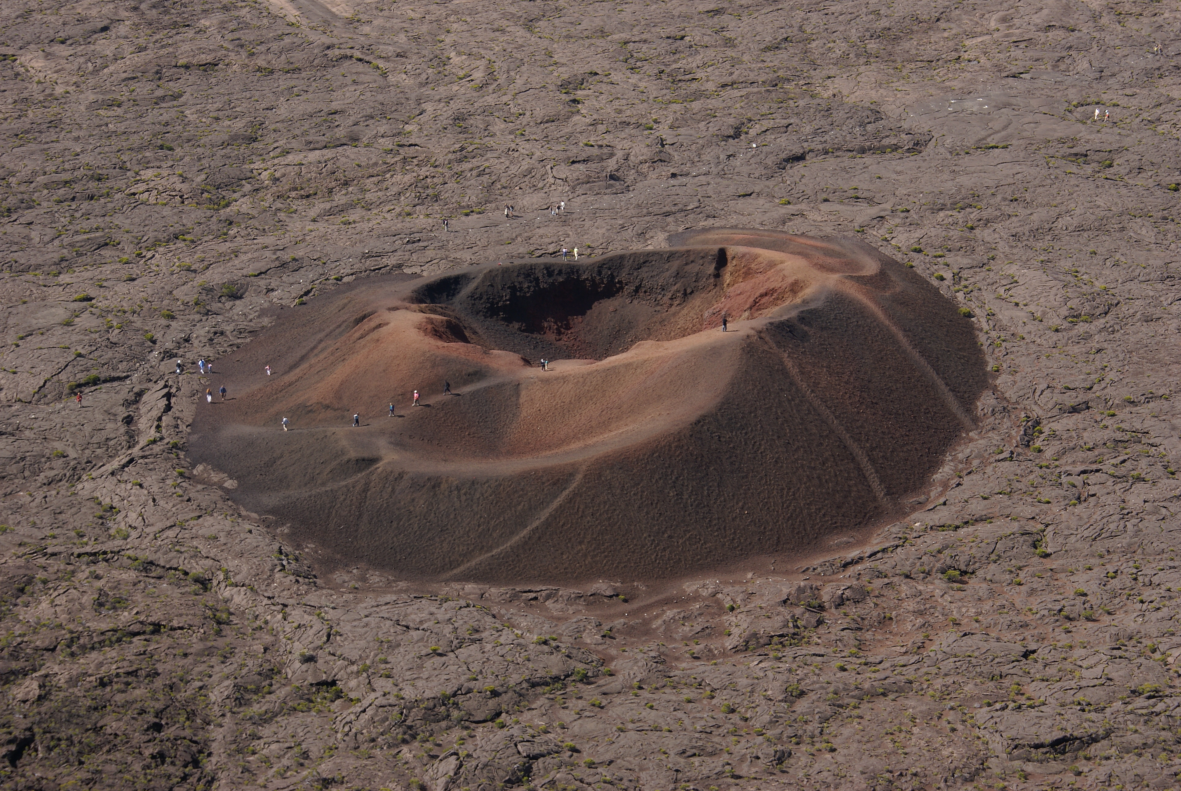 Formica Leo a strombolian cone adventive to the Piton de la Fournaise volcano on Réunion island